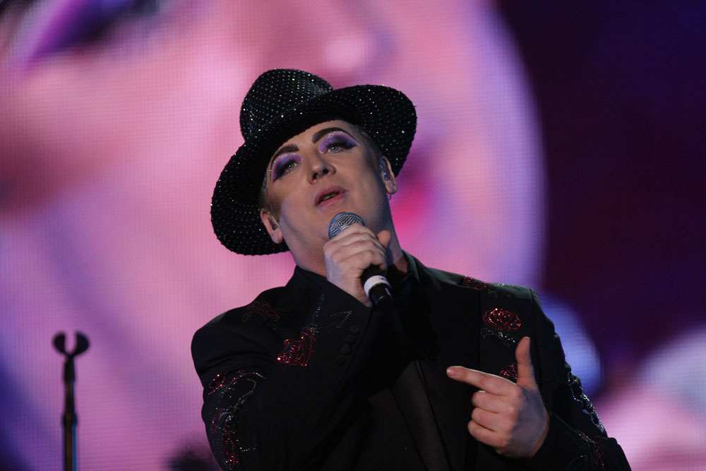 Sydney’s biggest New Year’s Eve party: Jamiroquai, Culture Club and Pet Shop Boys, as well as Australia’s very own Guy Sebastian, Pseudo Echo and Lyndsey Ollard